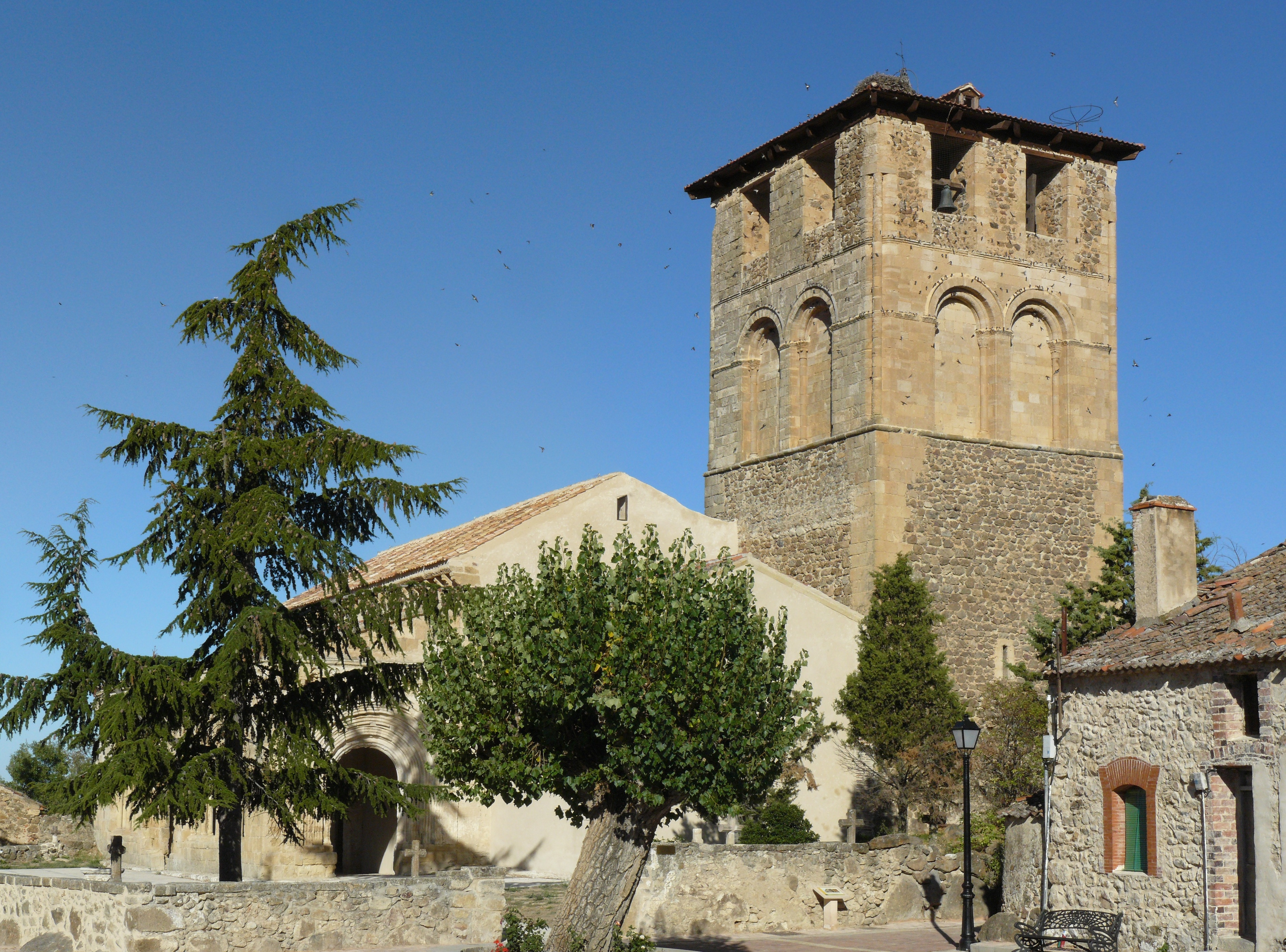 Detail of the roof, church of San Miguel, Sotosalbos (Segovia, Spain).